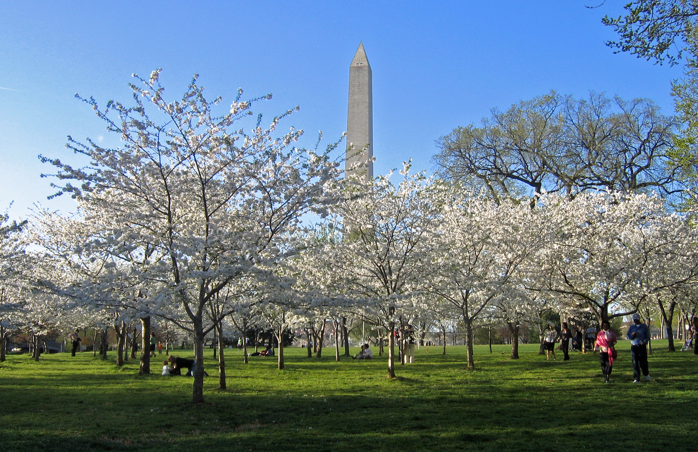 March from the Tidal Basin